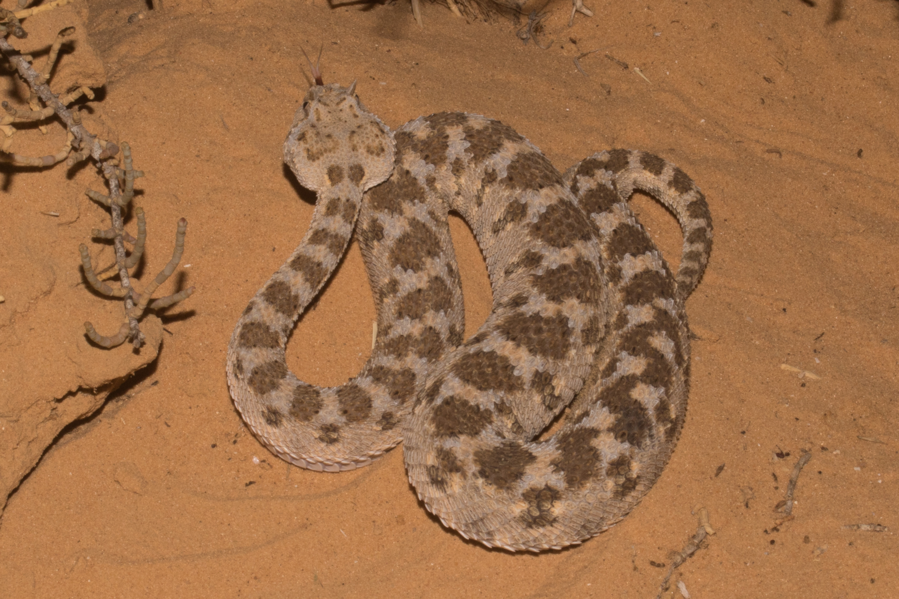 horned desert viper (Cerastes cerastes). Negev, Israel